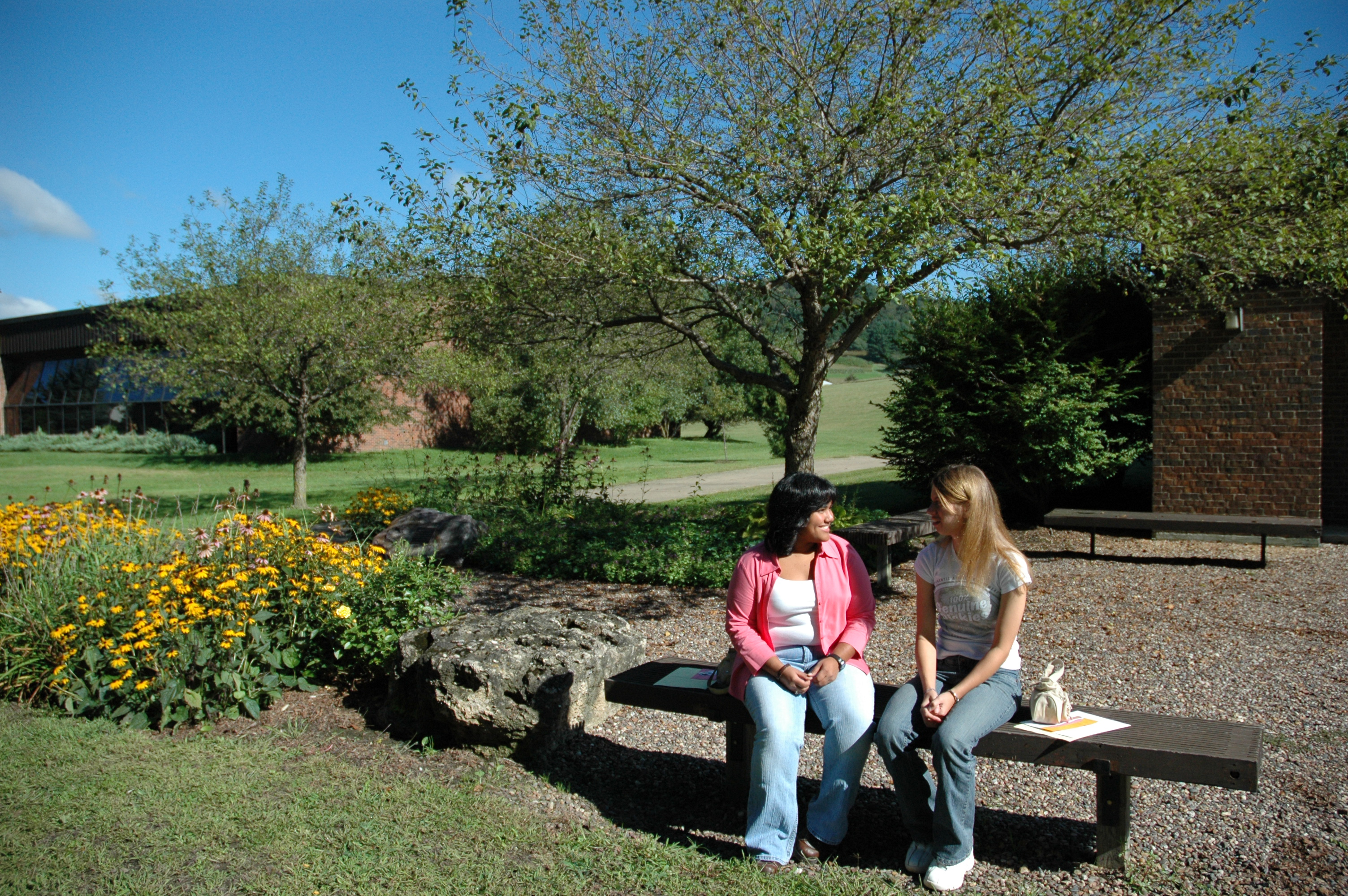 Bench at the University of Wisconsin-Richland